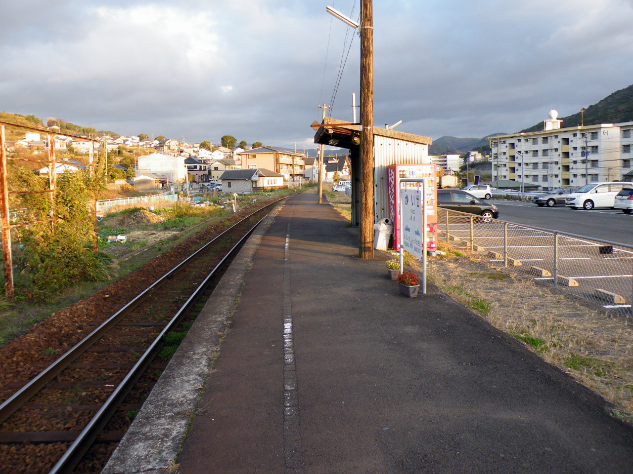 Matsuura Railway Nishi-Kyushu Line Kaize Station